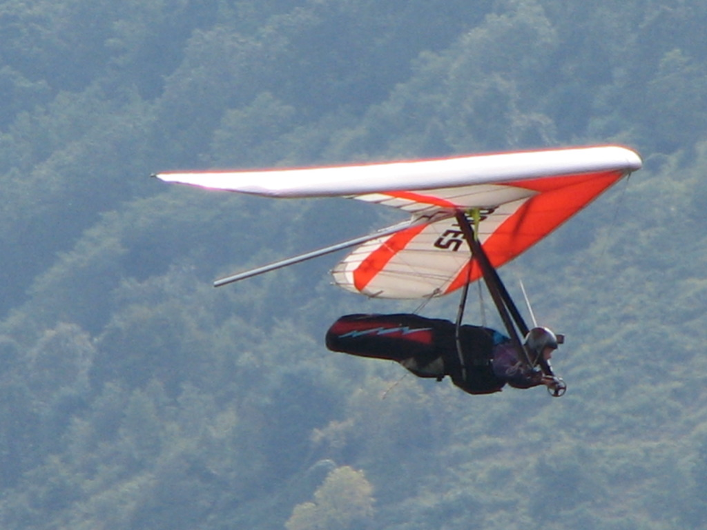 Hang gliding Labor Day 2006 at Hyner View State Park, Clinton County, Pennsylvania, USA.